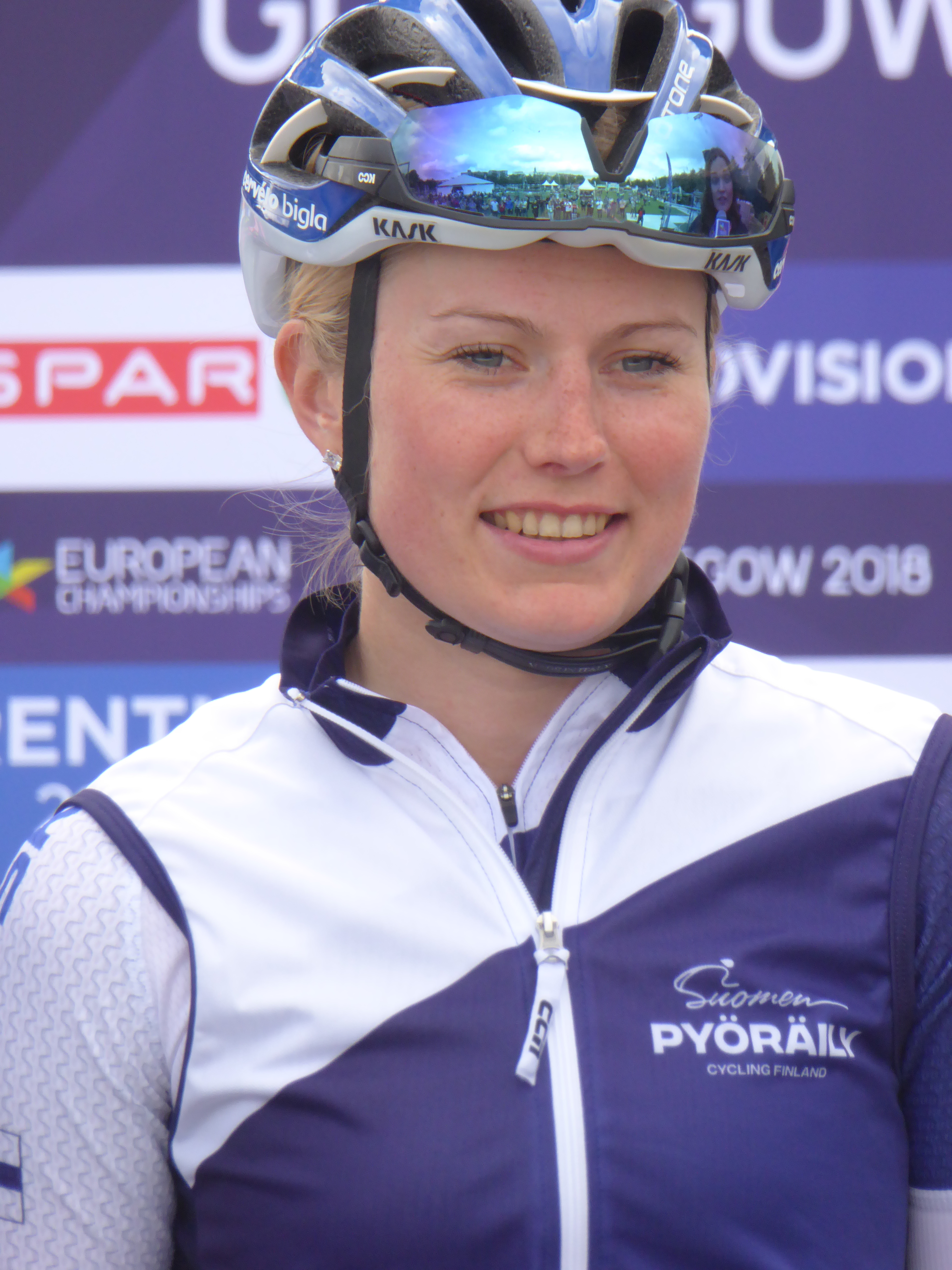 Lotta Lepistö (Finland), prior to the women's road race at the 2018 UEC European Road Cycling Championships in Glasgow.